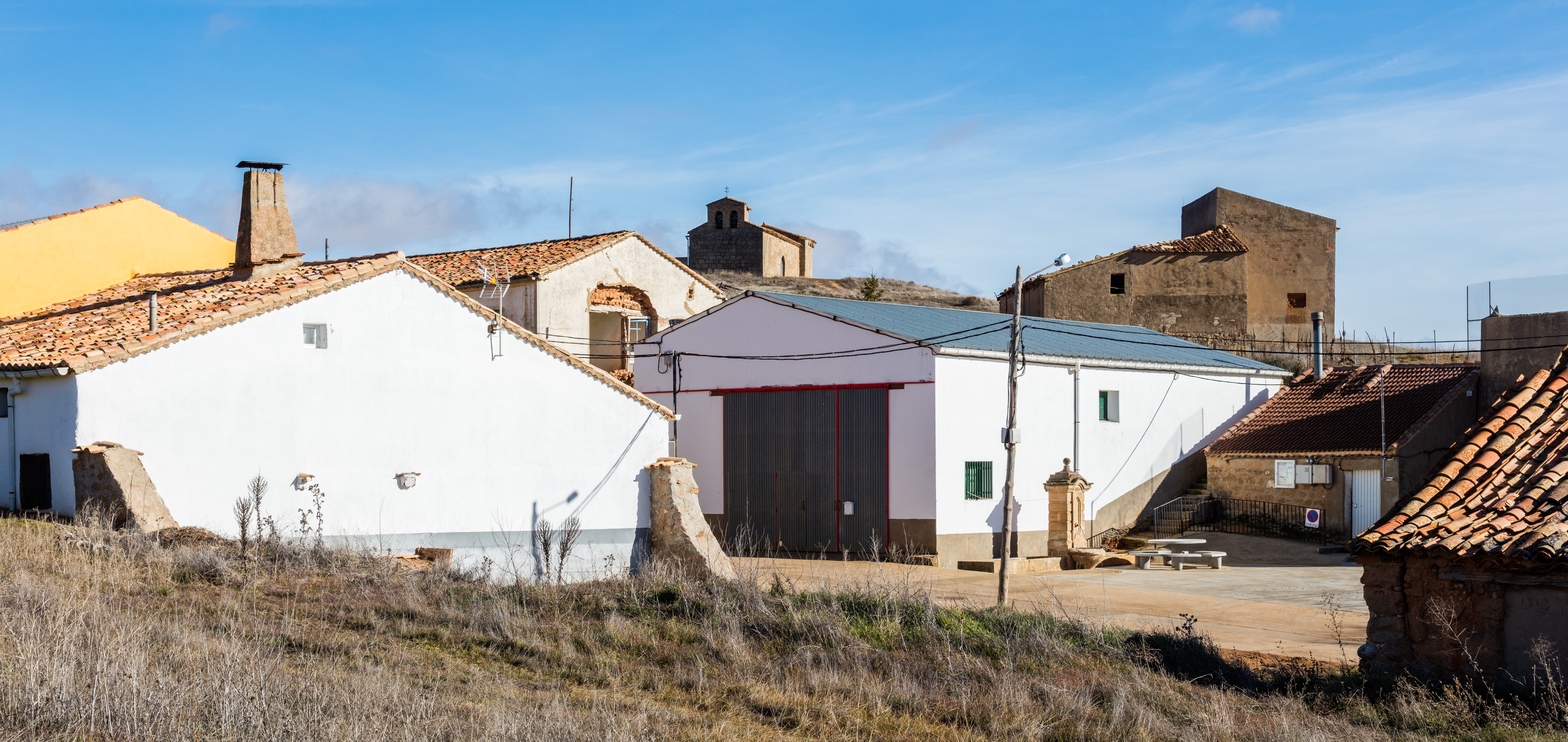 Alparrache, Soria, Spain